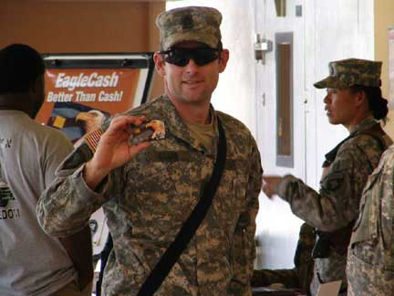 A U.S. soldier showing off his Eagle Cash card